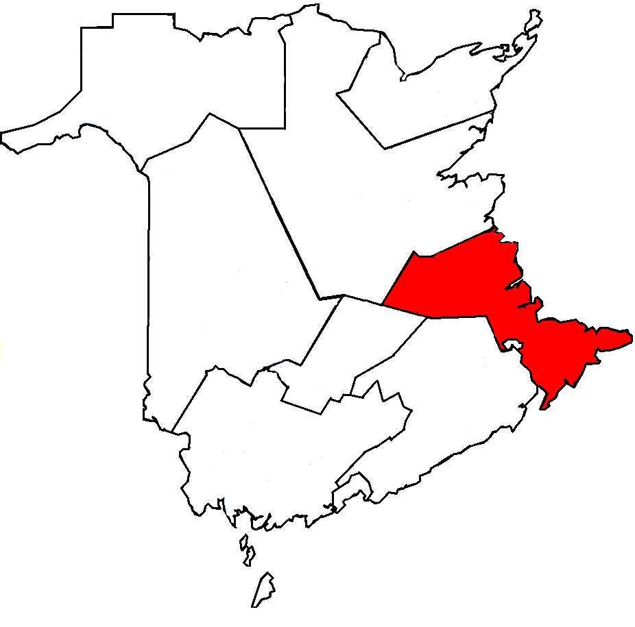 Map of the Beauséjour electoral district. Based on Earl Andrew's maps, created by SimonP.